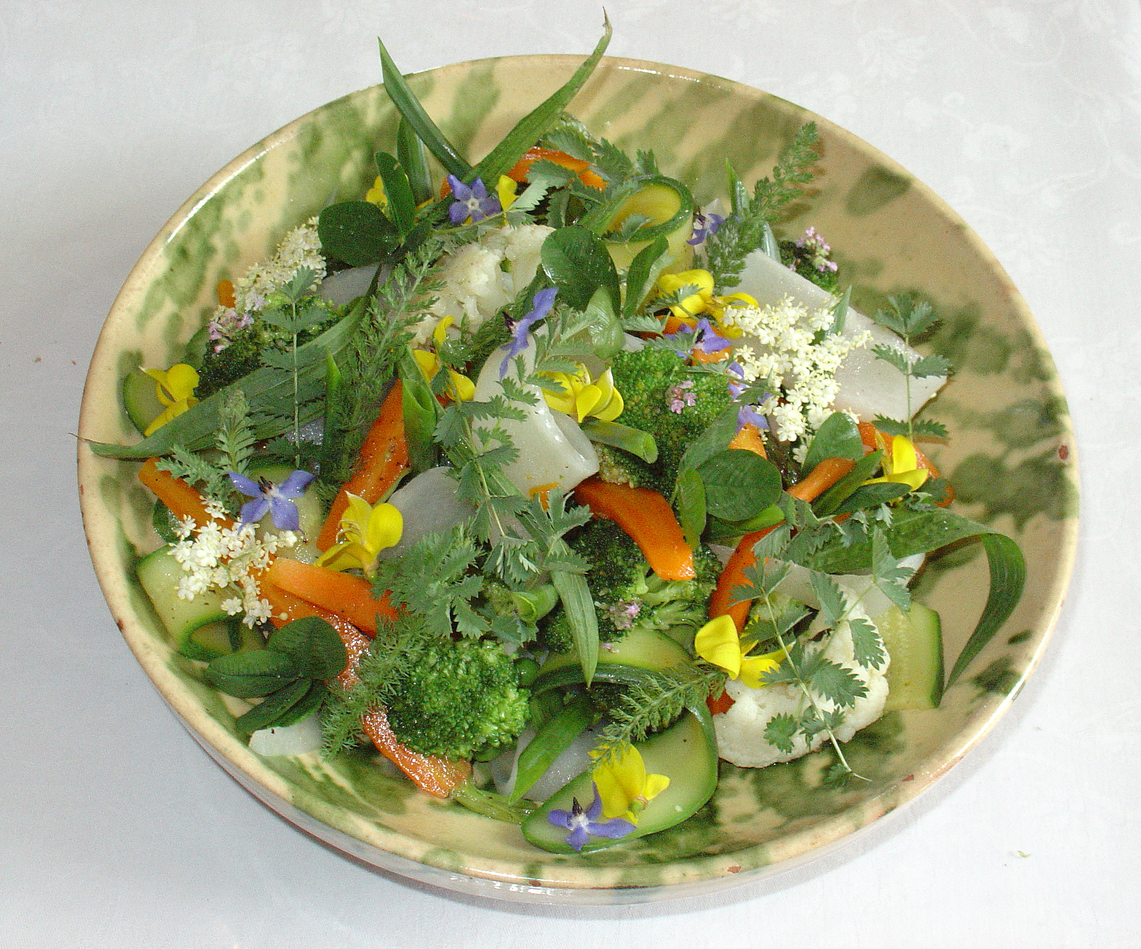 Vegetables'gargouillou. A salad of vegetables cooked with wild herbs and flowers. Original recipe from Michel Bras made here by Eric Sapet from La Petite Maison - Cucuron in Luberon (France)